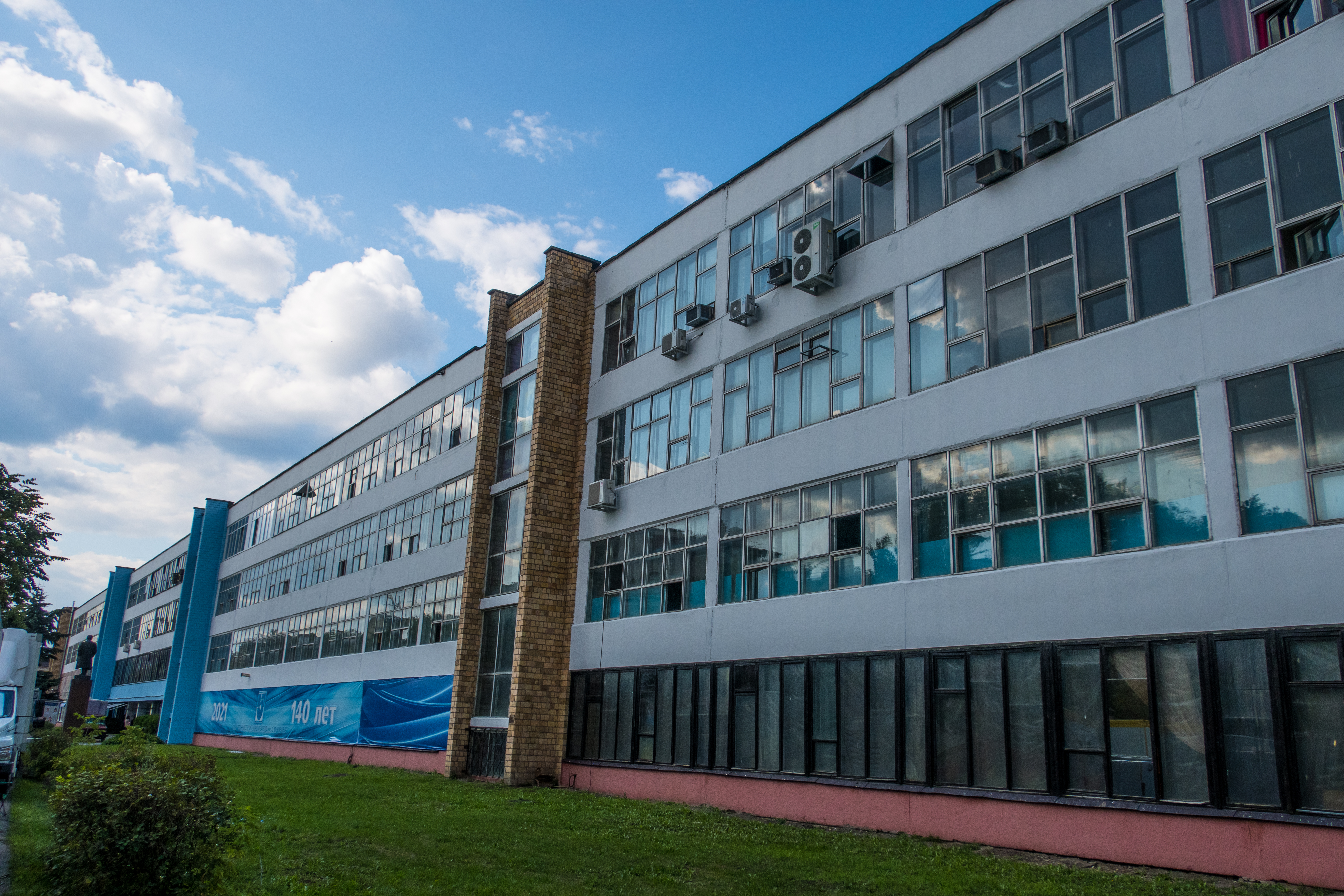 Čyrvonaarmejskaja street. Kirov machinery equipment factory. Minsk, Belarus